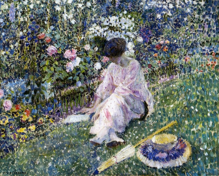 Ladies in the Garden in June